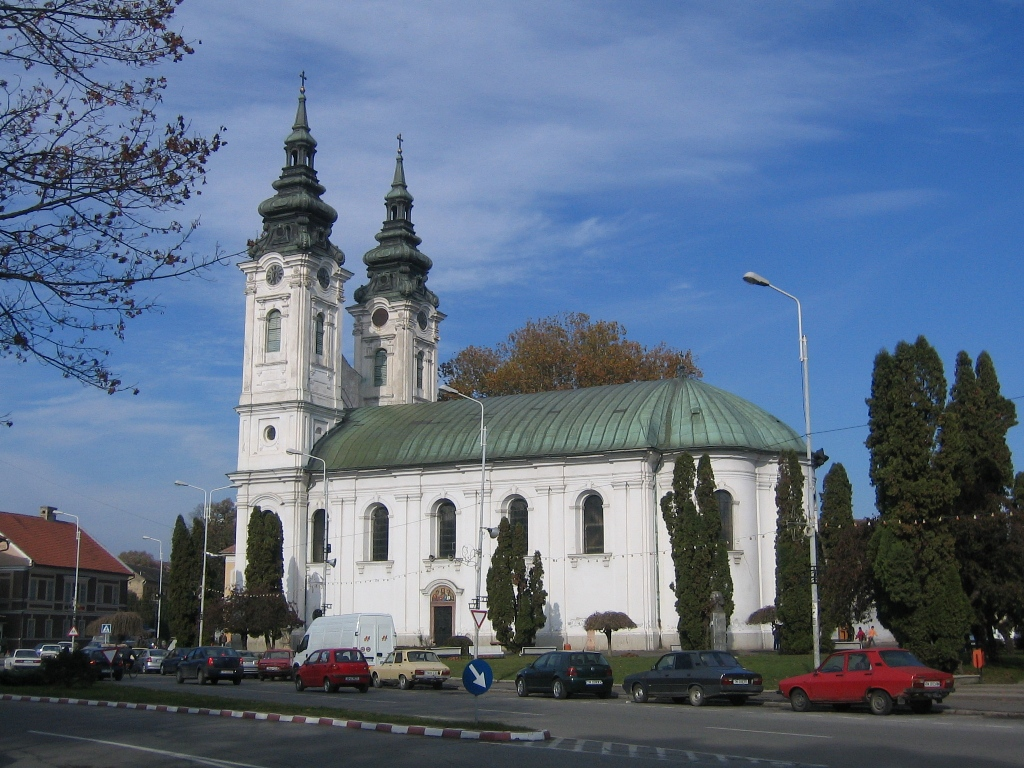 Orthodox Church, Lugoj, RomaniaRomână: Biserica ortodoxă "Adormirea Maicii Domnului" din Lugoj, construită între 1759-1766 în stil baroc, ctitorie a oberkneazului Gavril Gurean